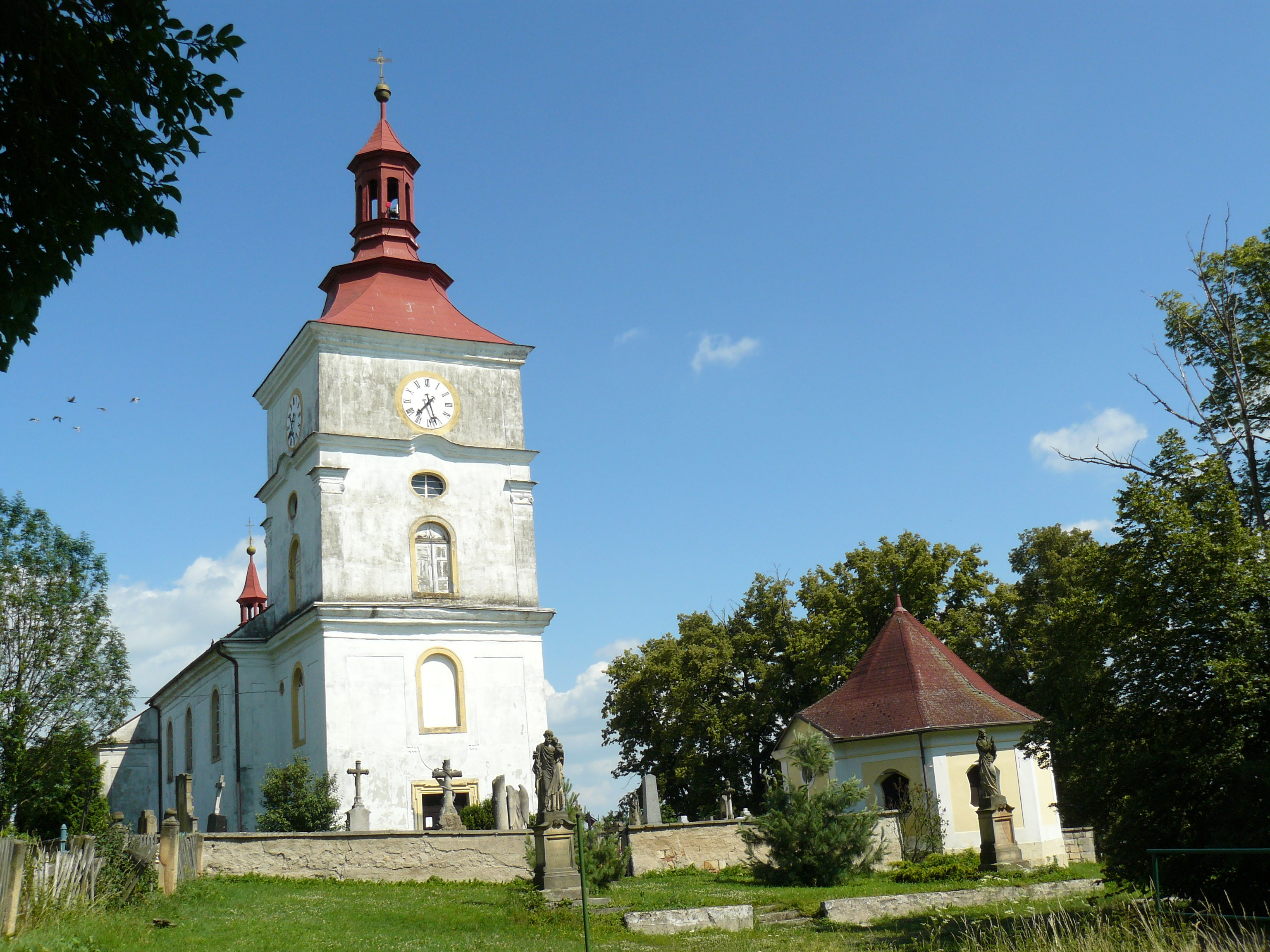 Hradíšťko - village in Czech Republic